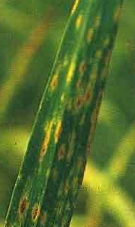 Tan spot symptoms